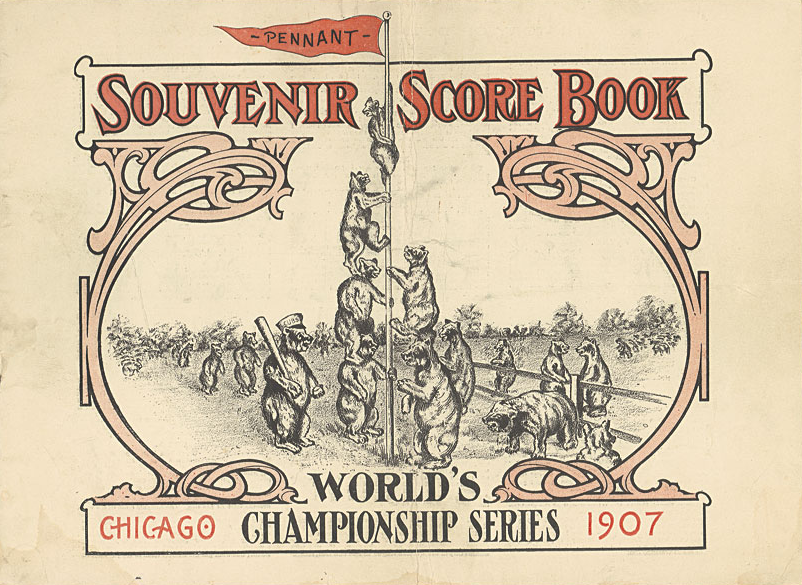 A program of the 1907 World Series.